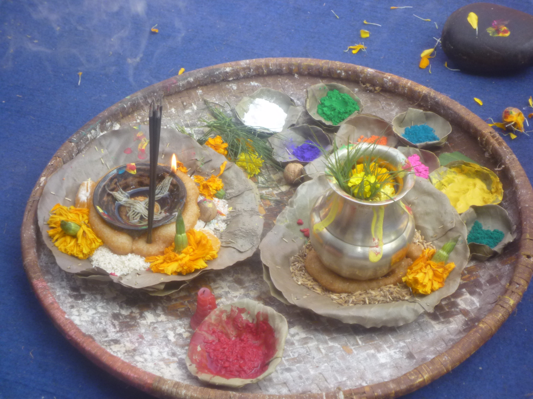 Preparation of tihar.